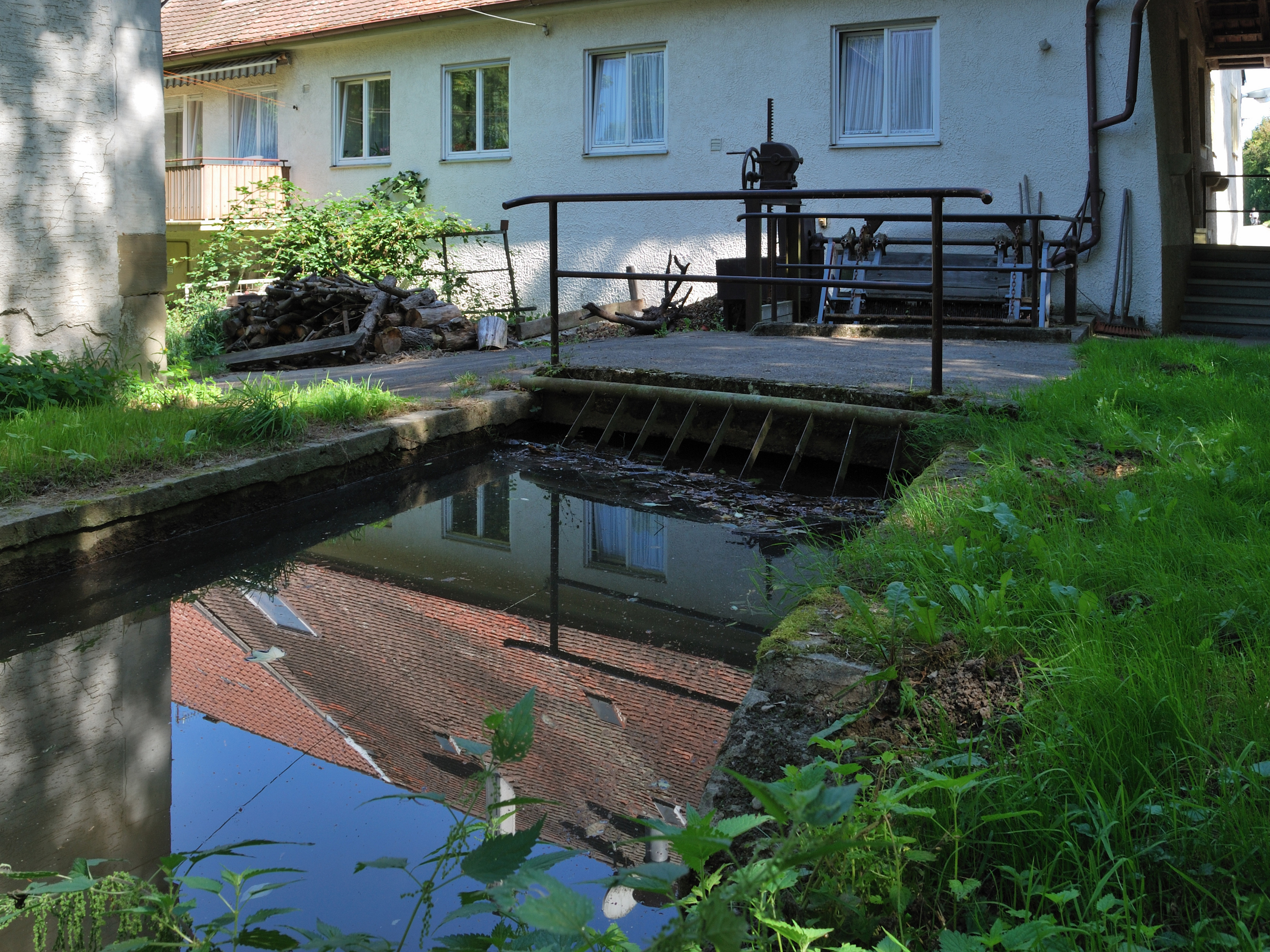 Stumpenmühle on the river Glems in Schwieberdingen in Baden-Württemberg, Germany. The former water mill, first mentioned in 1424, works today with a turbine.